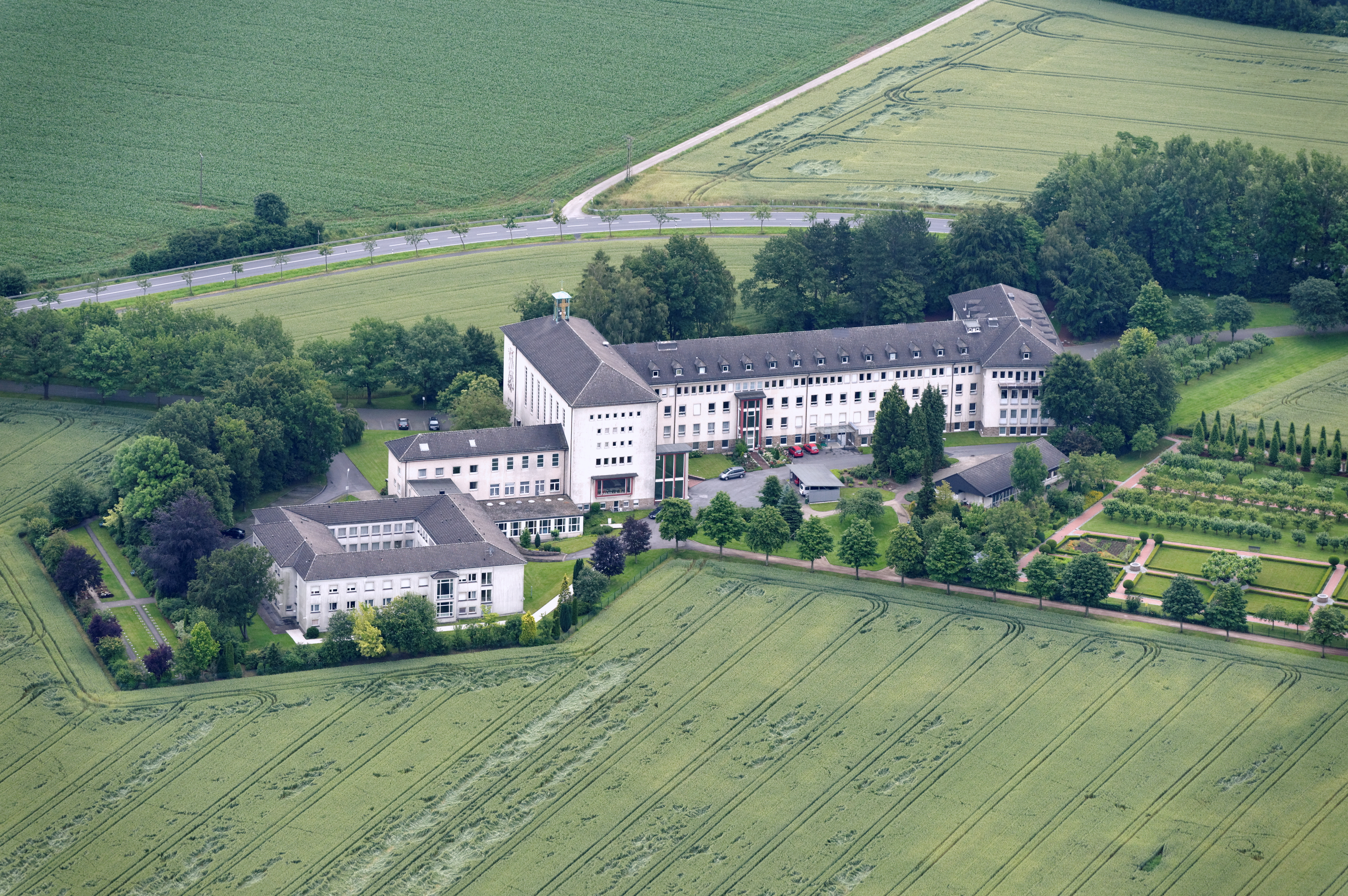 Heilig-Geist-Kloster der Steyler Missionarinnen in Wickede-Wimbern The making of this document was supported by the Community-Budget of Wikimedia Germany.